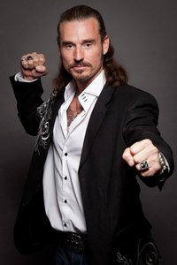 Coach Wade, also known as The Dragonslayer: Publicity photo taken in 2010